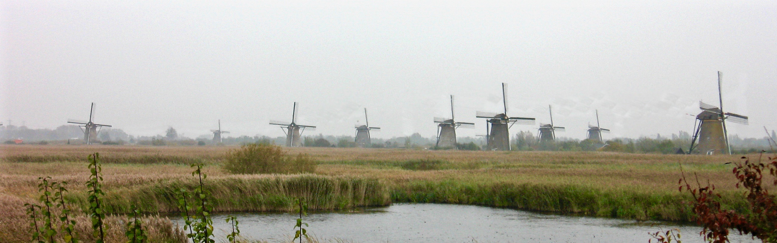 Panoramic view of Kinderdijk